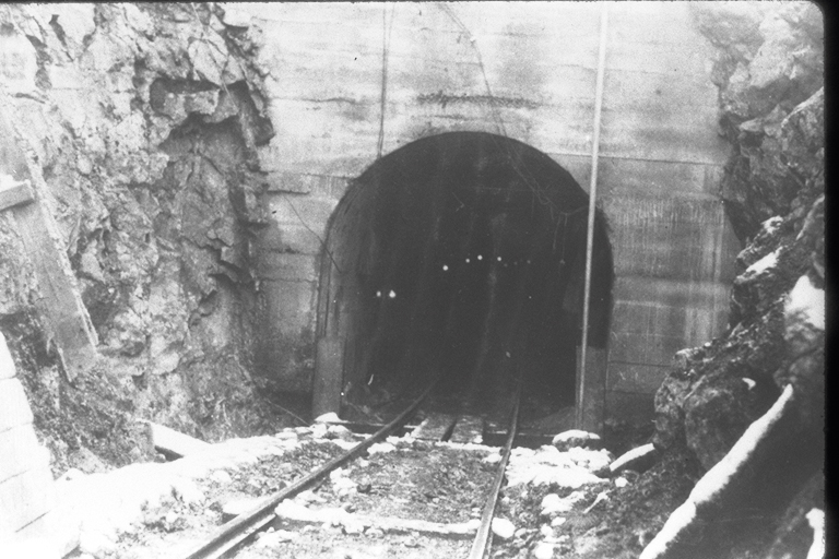 Photo shows an old mine shaft